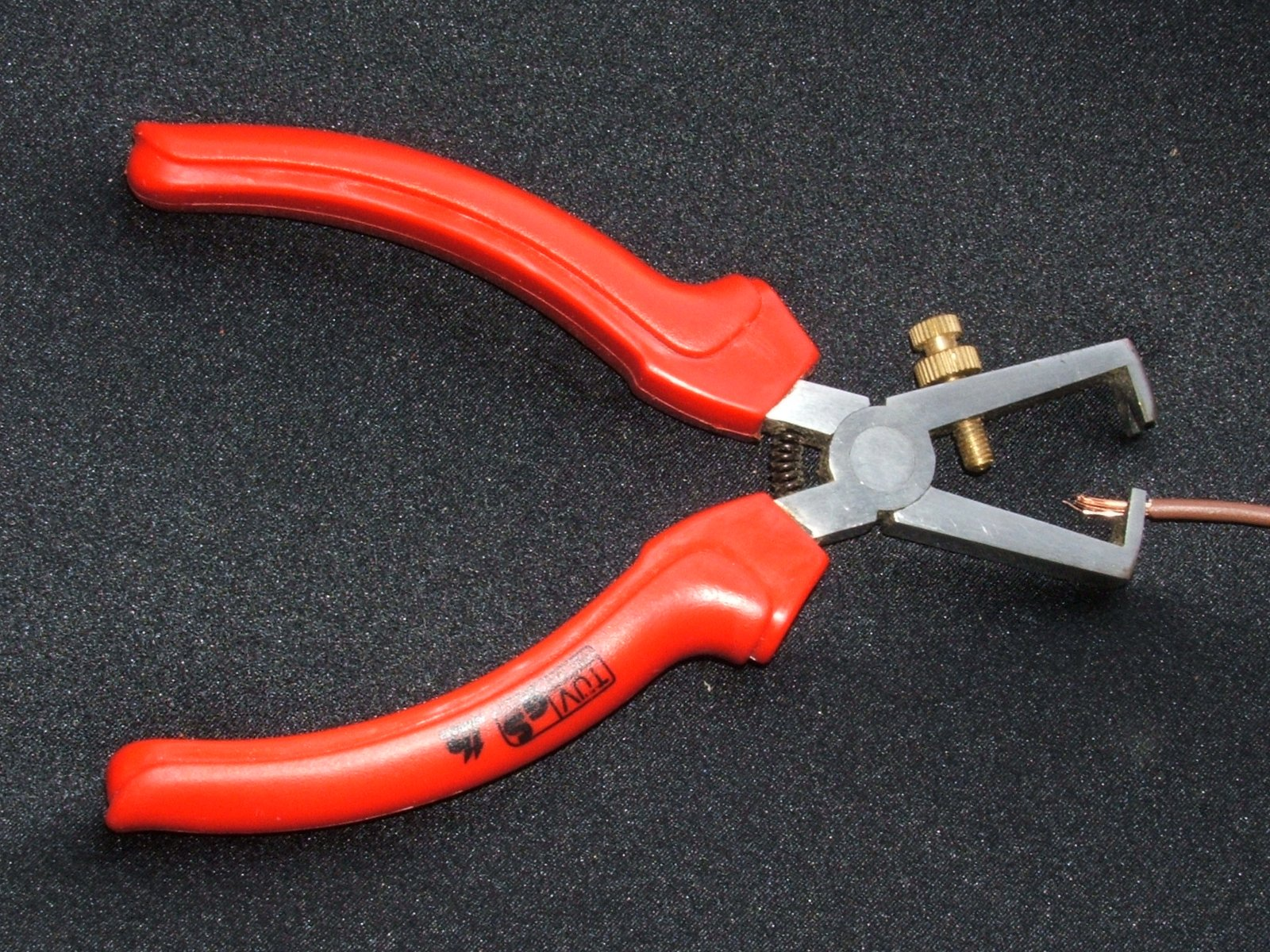 Wire stripping pliers